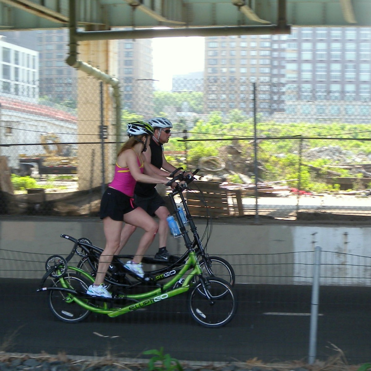 Looking east as two standup bikes go south under Miller Highway on a sunny day.